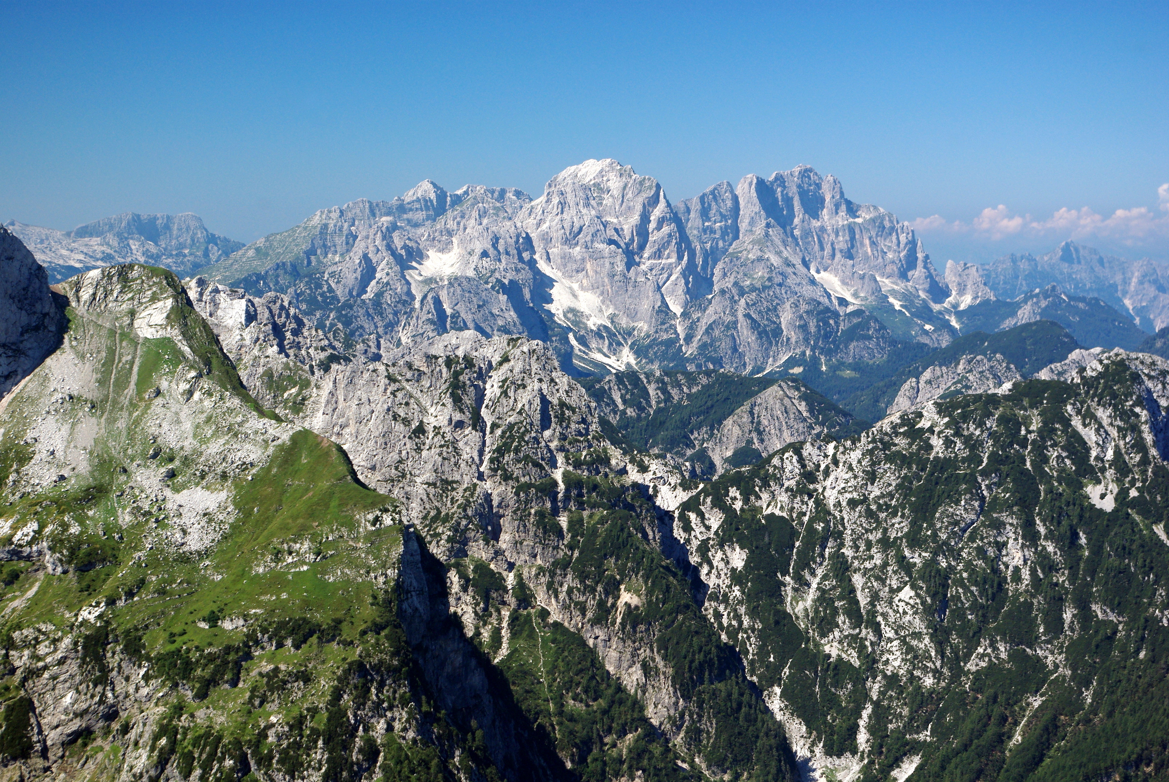 Western Julian Alps from Visoka Ponca.